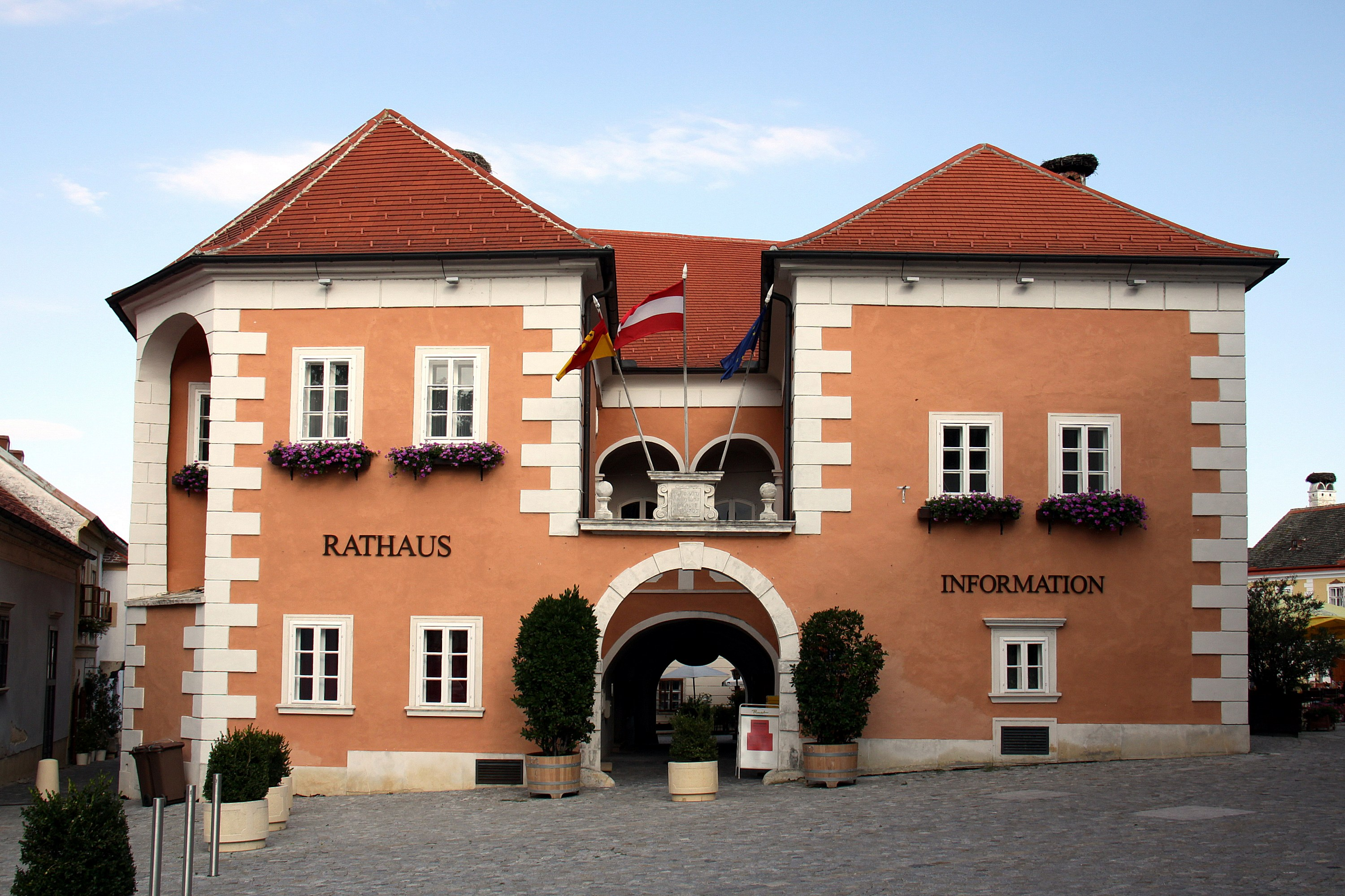 Rathaus, Gemeindeamt and ourist-info in Rust (Burgenland) in Burgenland (Austria) – view Conradplatz 1